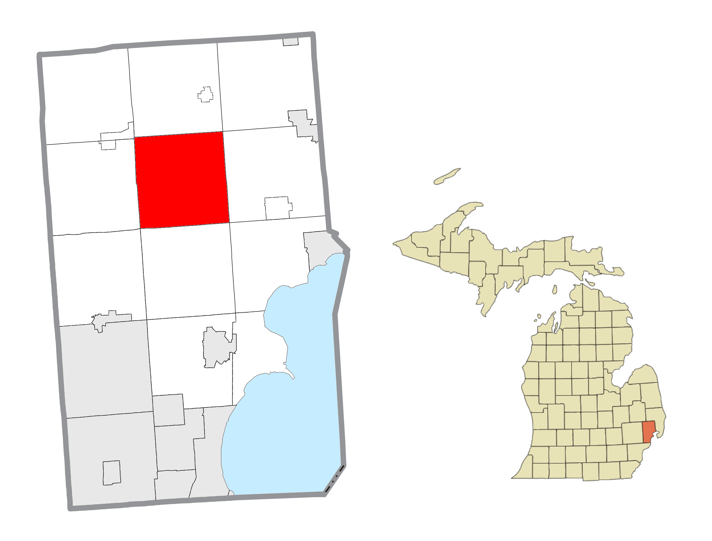 Ray Township, MI